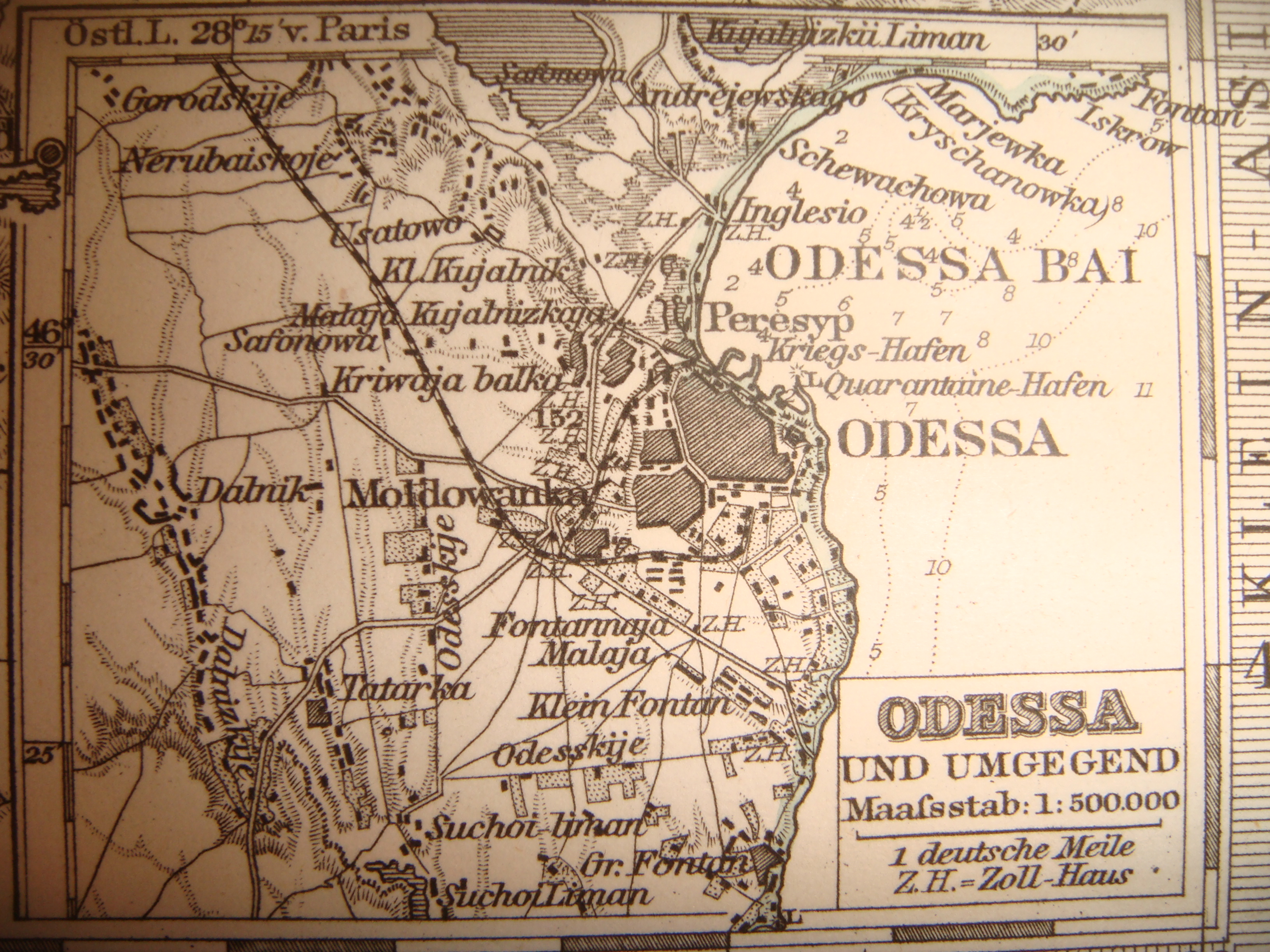 German map of late XIX century with Odessa city and suburbs